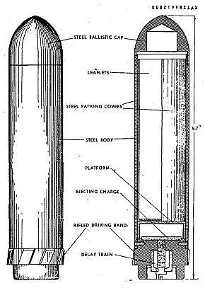 Gewehr Propaganda Granate